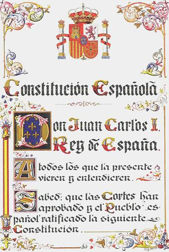 Spanish Constitution of 1978. The text translates to "Spanish Constitution – Lord Juan Carlos I, King of Spain, to all whom these presents shall be seen or understood, BE IT KNOWN: That the Cortes have approved and the People of Spain have ratified the following Constitution"